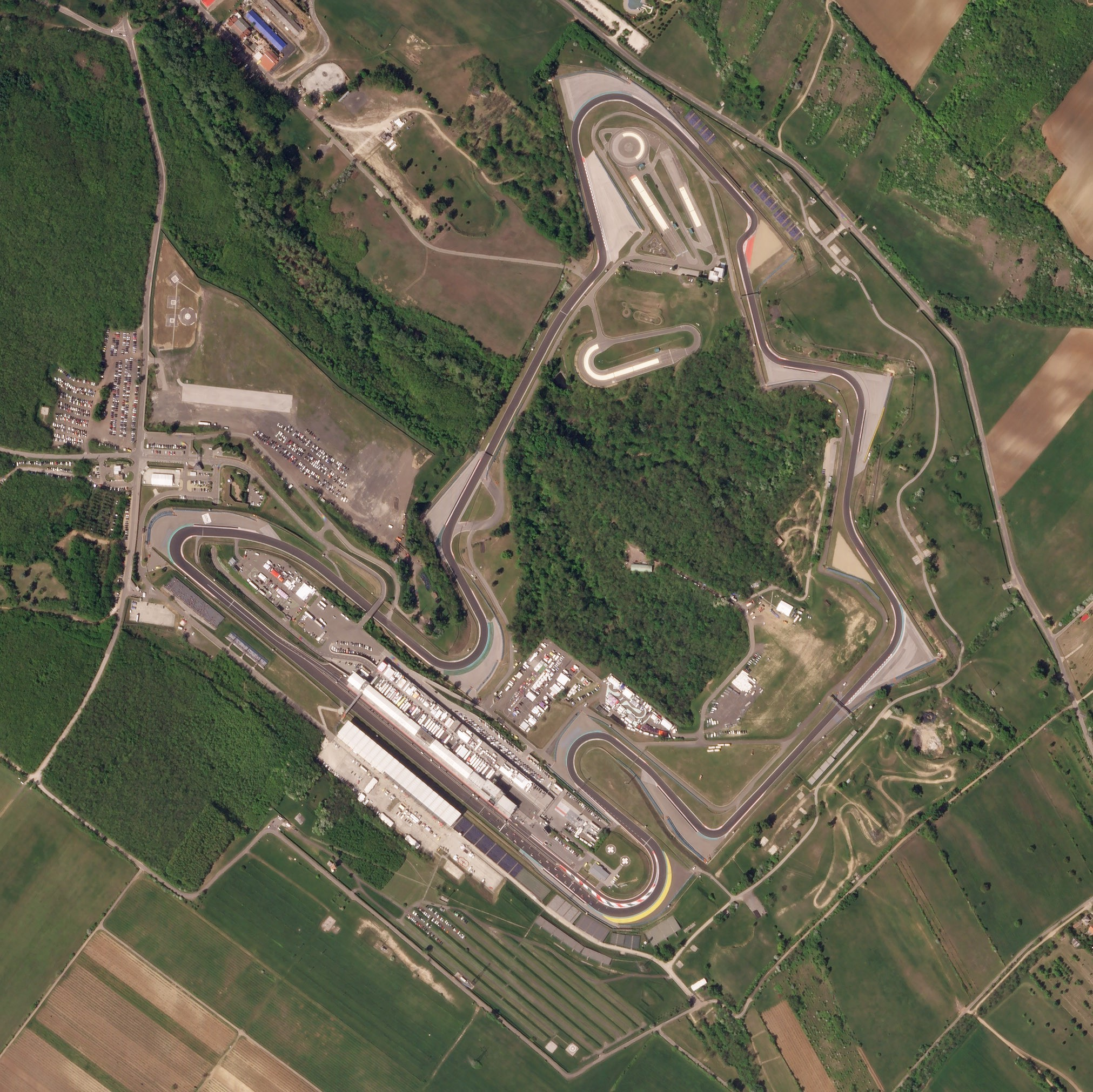 The Hungaroring, a motorsport race track in Mogyoród, Hungary where the Formula One Hungarian Grand Prix is held. Image taken on April 28, 2018, by a Planet Labs SkySat satellite.